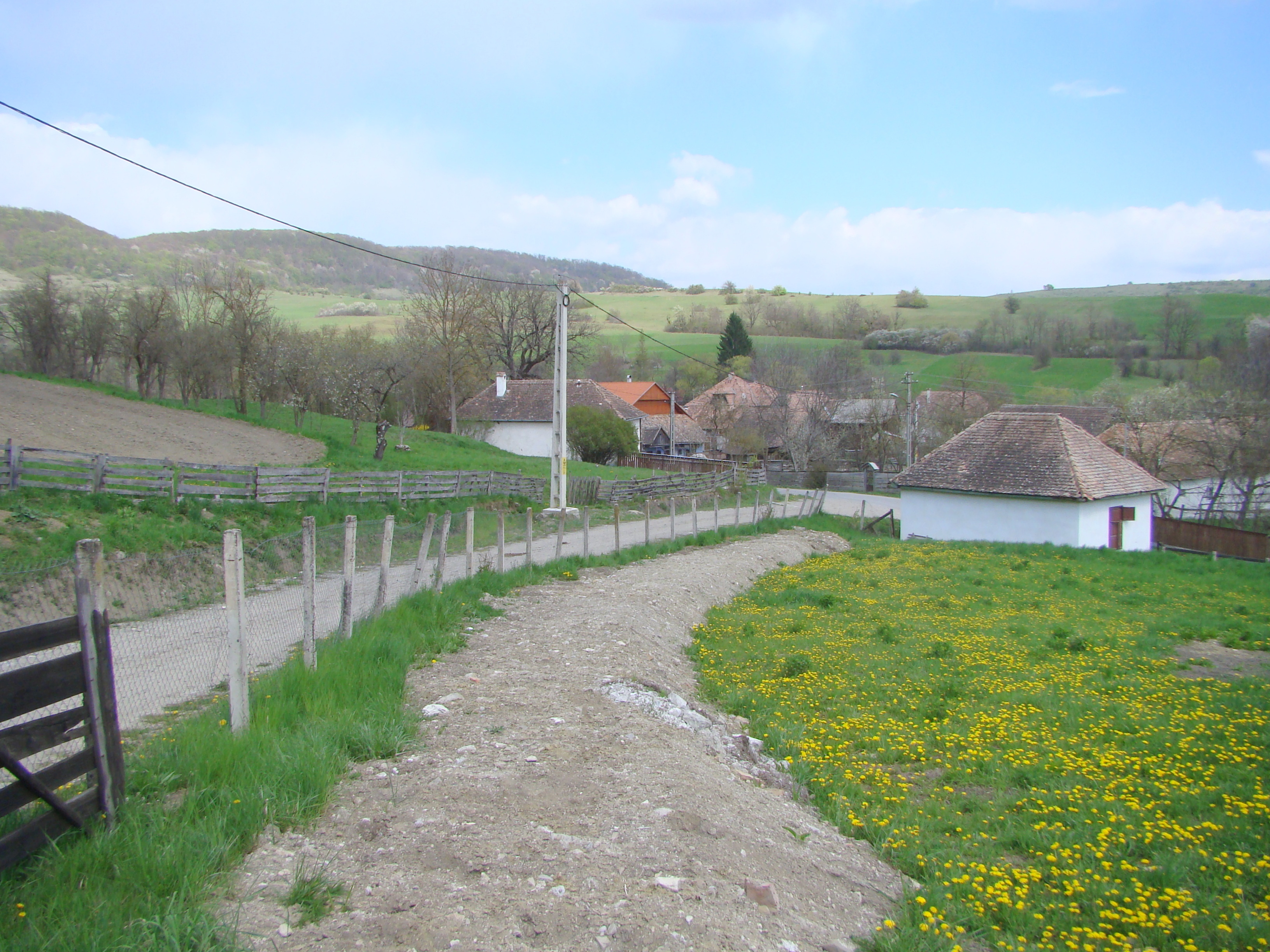 Tărcești, Harghita county, Romania